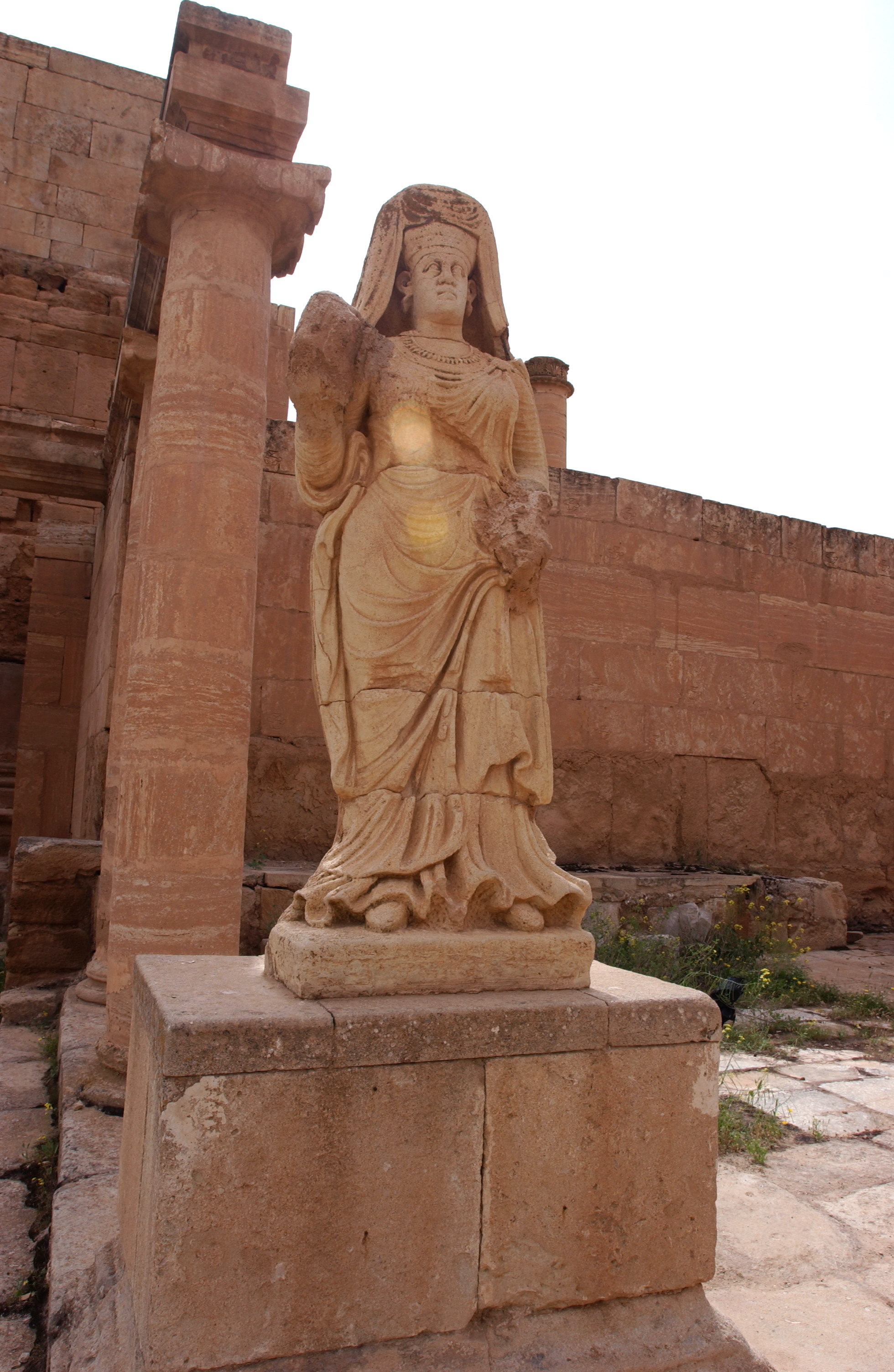 Parthian ruled and capital of the first Arab Kingdom, Hatra, also known as the City of the Sun god was built circa 150 BC. Hatra contains the temple of Shamash, spirit of the sun, and the shrine of the goddess Shahiro, the morning star. Photo by Spc. L.C. Campbell, photojournalist, 138th Mobile Public Affairs Detachment.